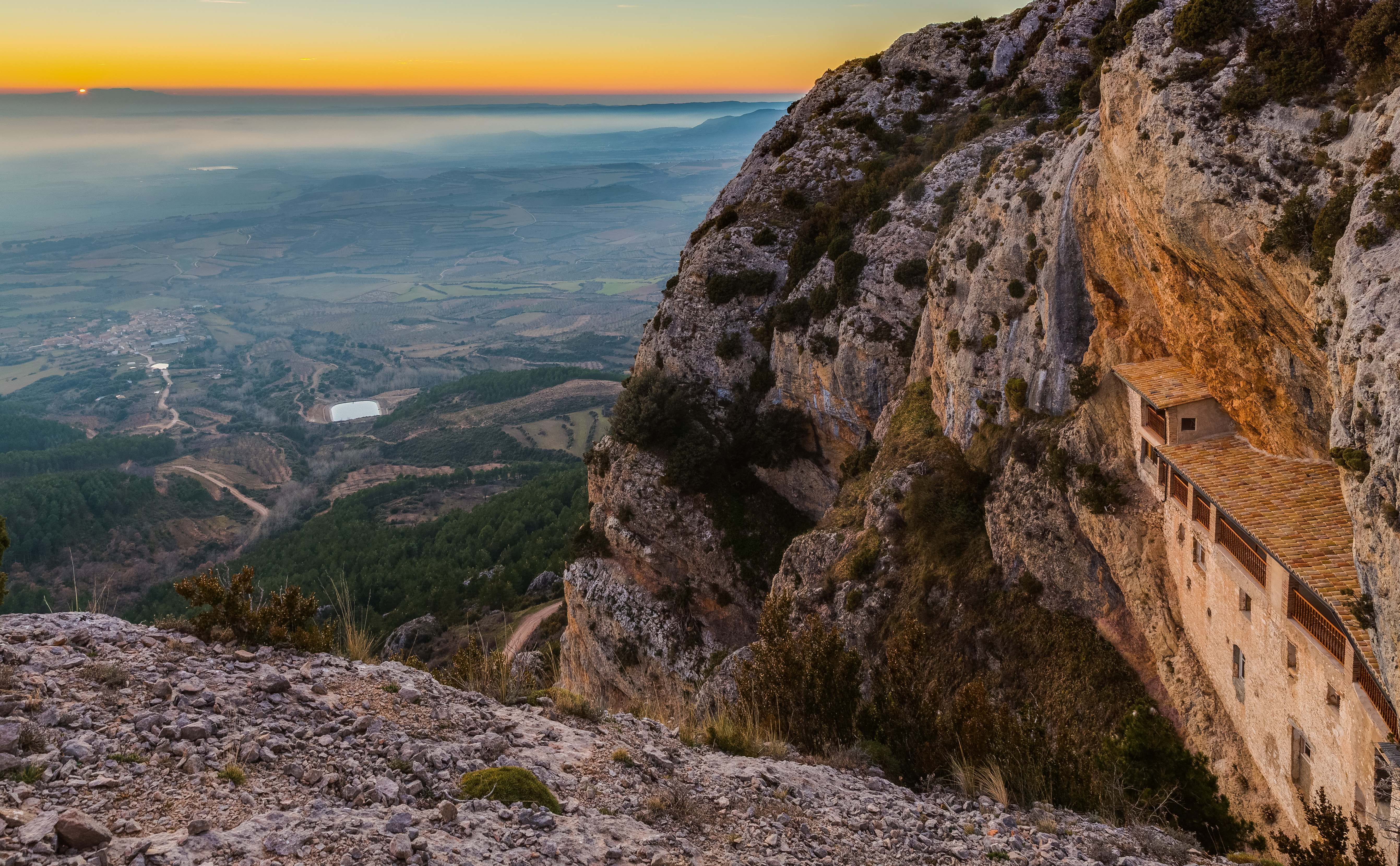 Hermitage of the Virgin of the Rock, LIC Sierras de Santo Domingo y Cabellera, Aniés, Huesca, Spain.